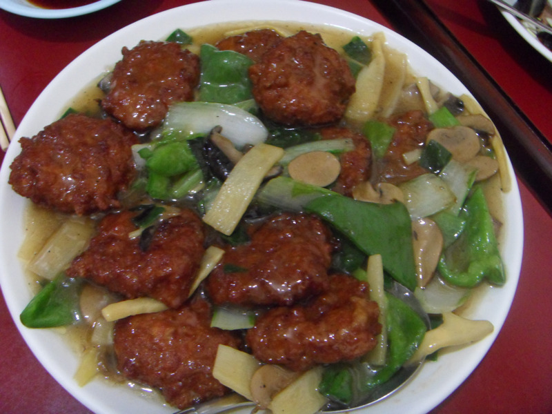 Nanja-wanseu (Korean Chinese meatballs)